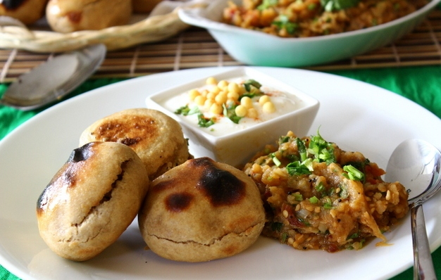 Litti Chokha is an authentic North Indian dish eaten traditionally in Bihar, Jharkhad and some part of Uttar Pradesh (mainly in Ballia) . It can be had for lunch, dinner. The stuffing to be filled in it is made with Sattu and Litti is eaten with brinjal bharta or mashed potato. One can also prepare Mixed Veg Chokha.